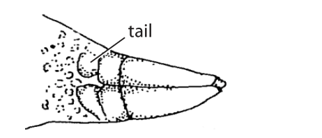 Standard Event System character depiction